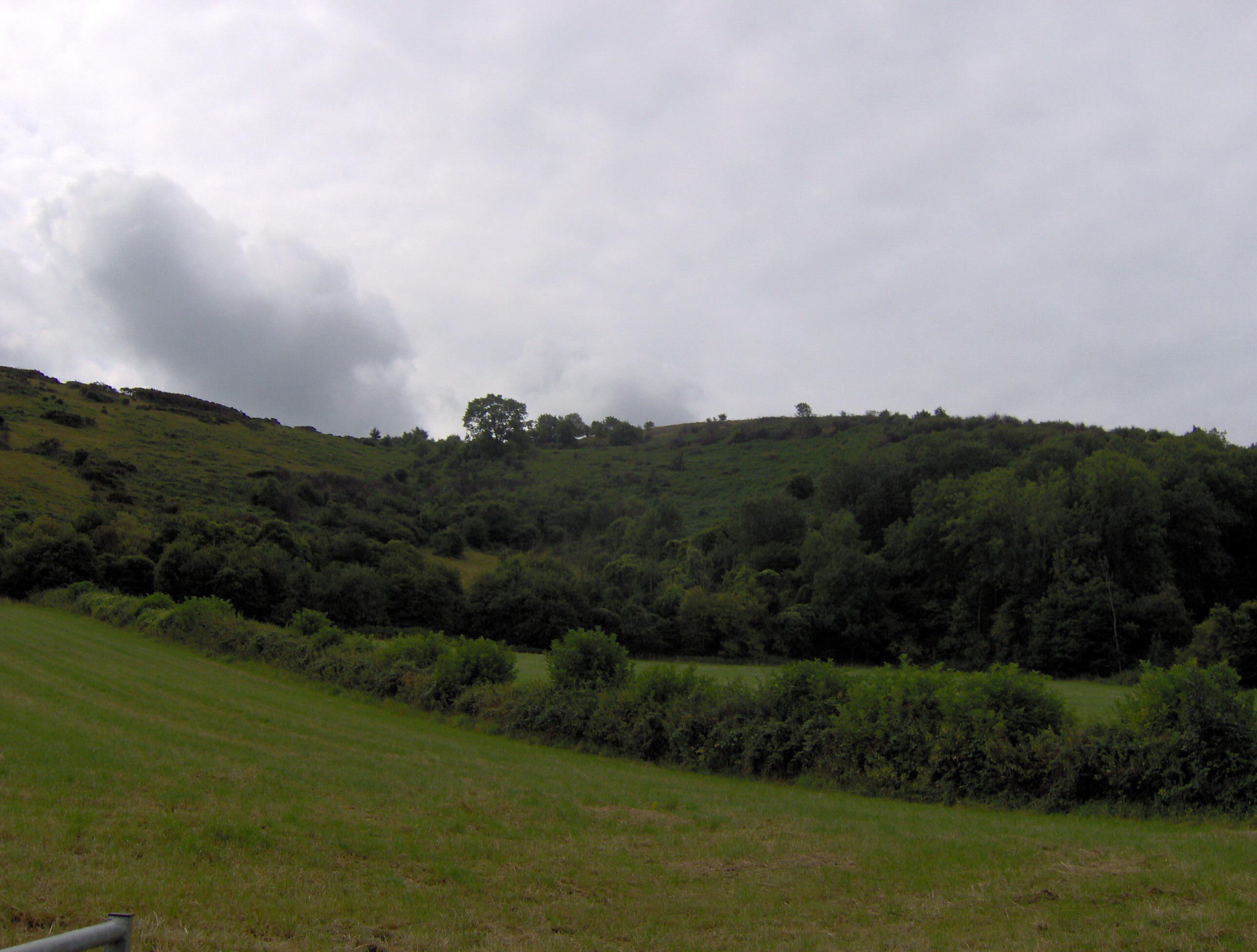 Crook Peak, Mendip Hills Somerset. Taken by Rod Ward 15th August 2006